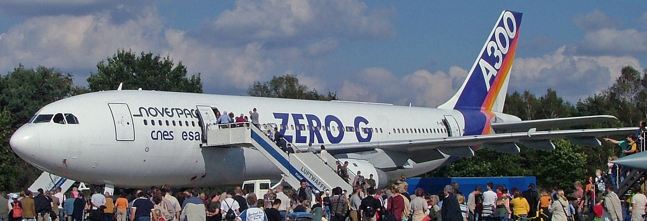 Airbus A300 Zero G at Cologne Bonn Airport, Germany